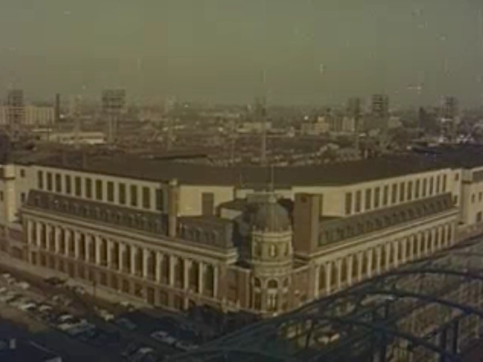 Mid-Fifties slices of life and landscape in Philadelphia and surrounding towns. With excellent color footage of downtown scenes, neighborhoods, the Mummers Parade, Levittown, factories in Camden, New Jersey, and many other subjects that can no longer be seen. Producer and Director: Cal Jones. Cinematographer: Ralph Lopatin. Writer and Narrator: Dick McCutchen. * Screen capture from the film located at: This movie is part of the collection: Prelinger Archives